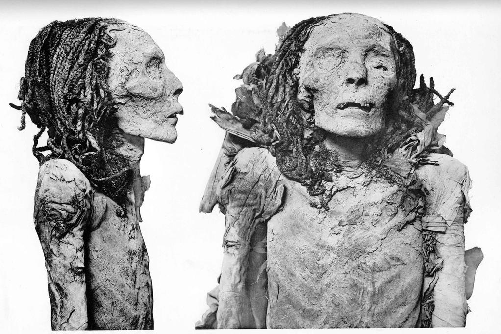 Mummy of Ahmose-Nefertari, queen of pharaoh Ahmose of the 18th dynasty, found in DB320.